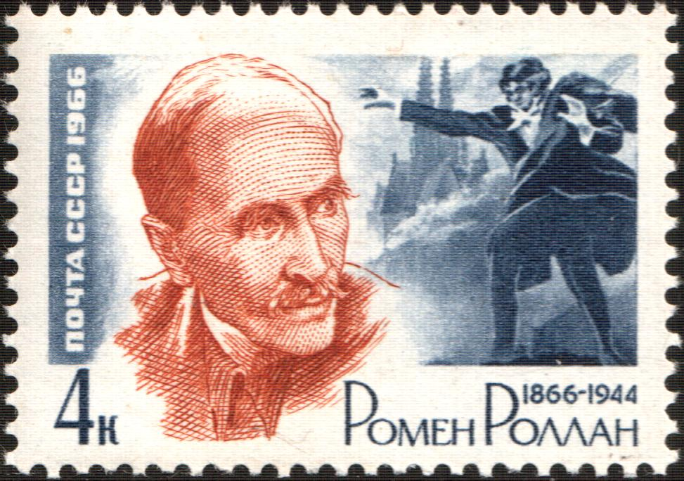 On the 100th anniversary of Romain Rolland birth (1866-1944). Series: People of the world culture. Drawing by A. Yar-Kravchenko. Engraving by T. Nikitina. Artist V. Pimenov. Post of USSR 1966.